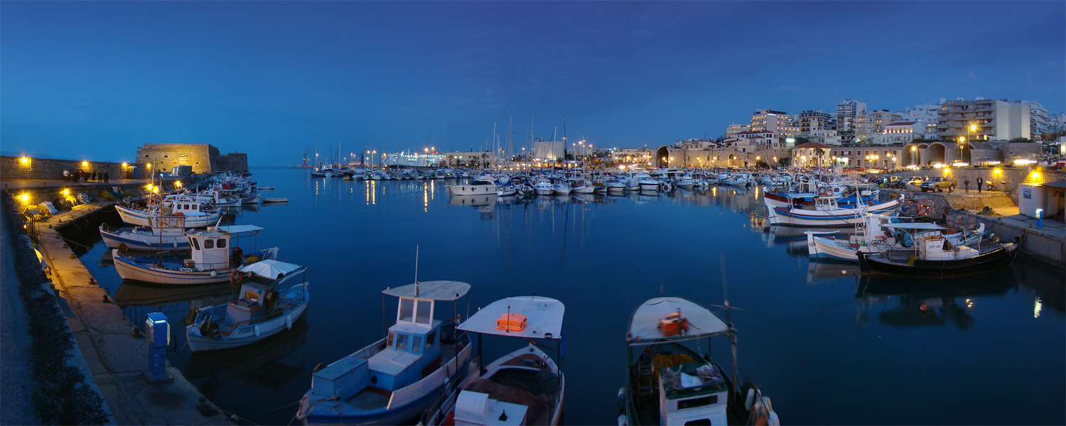 Heraklion, Crete, Greece. The Old Harbour in the foreground opens up to the New Harbour beyond the Koules Venetian Fortress visible on the left.